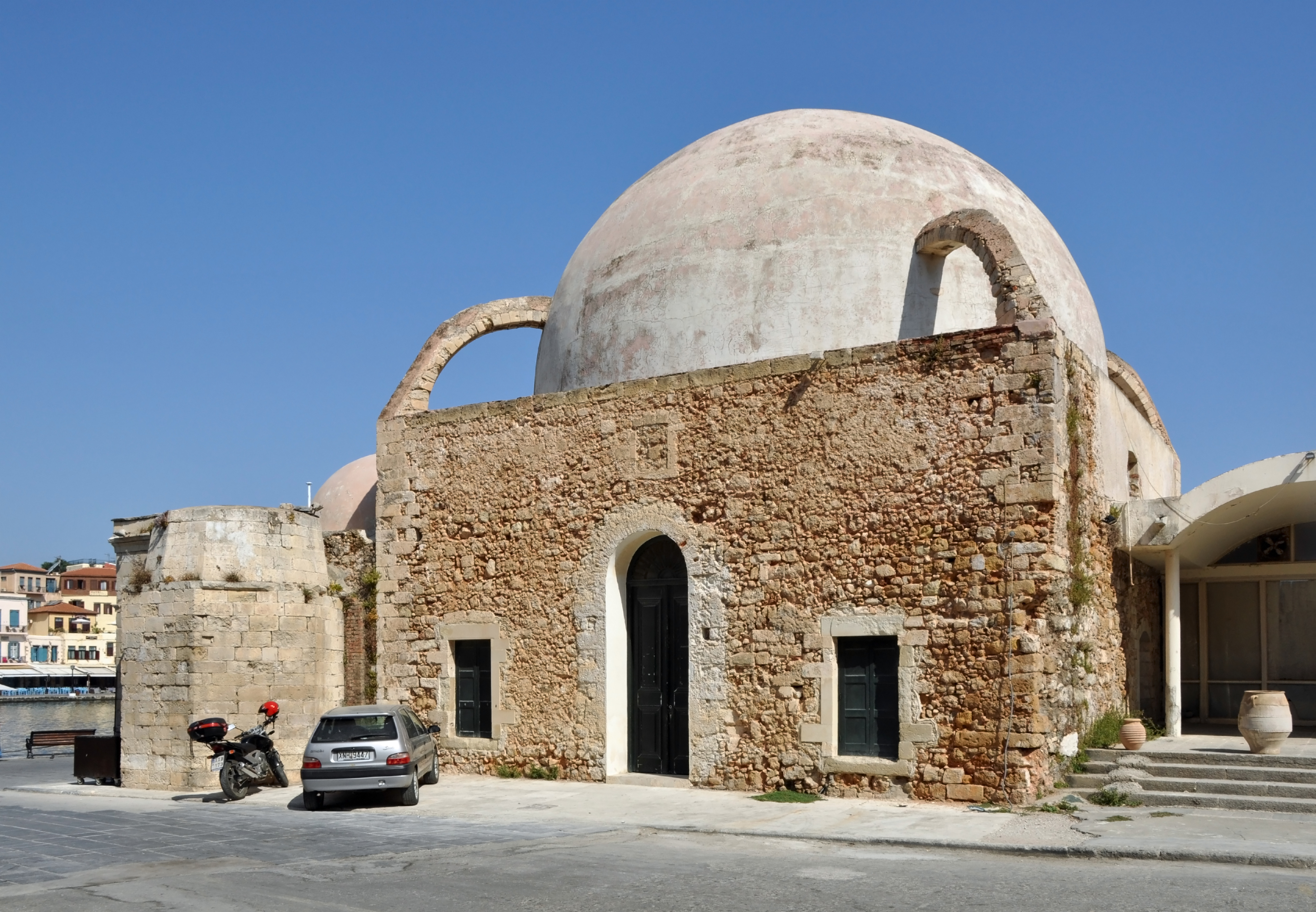 Chania (Crete, Greece): Hasan Pasha mosque or Janissary mosque